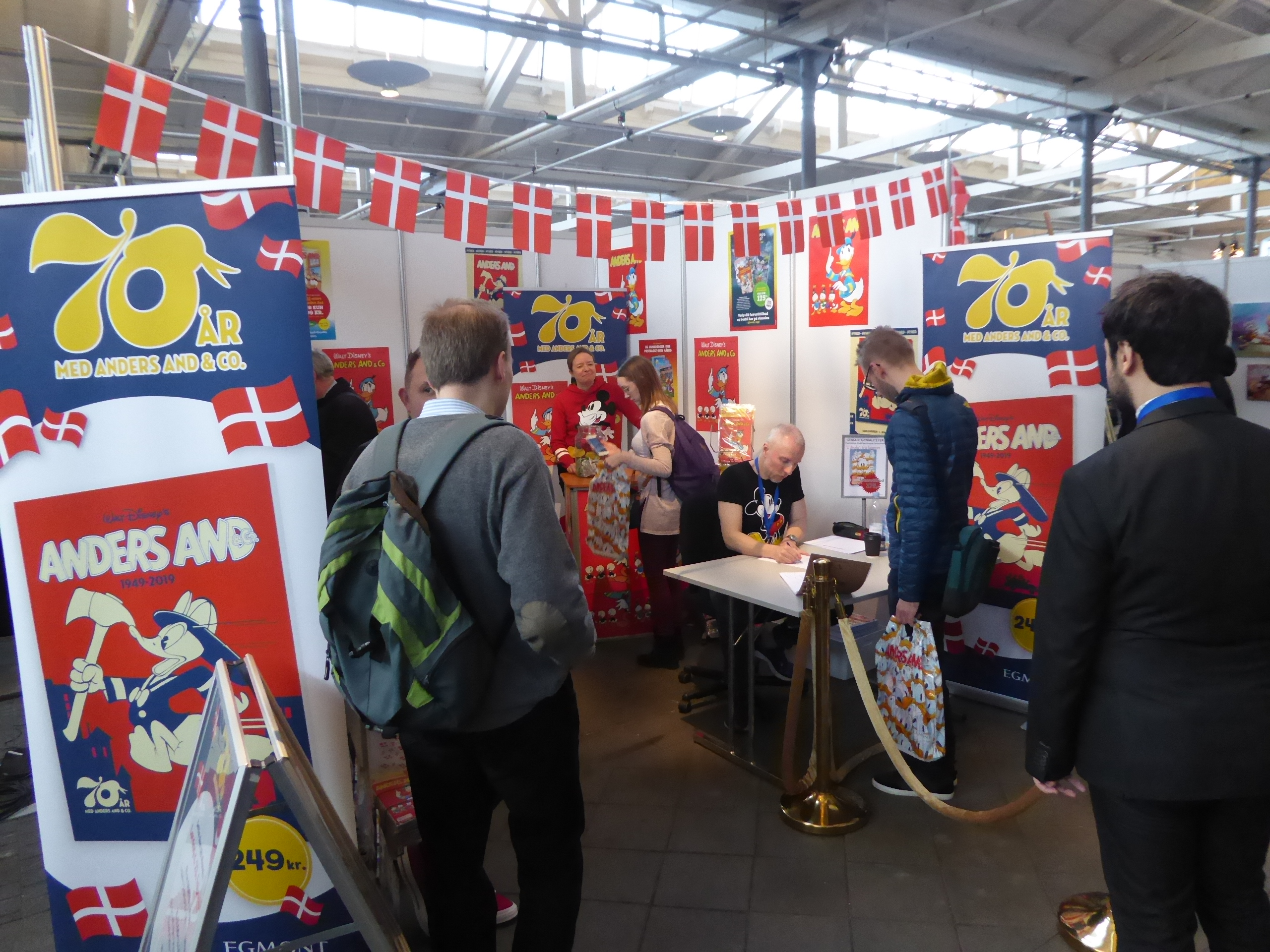 The comic book publishing company Egmont celebrated the 70 years anniversary of the Danish Donald Duck Magazine at the event Copenhagen Comics in Øksnehallen in Copenhagen. Many people wanted to get a signed drawing from the Danish Donald Duck artist Flemming Andersen.